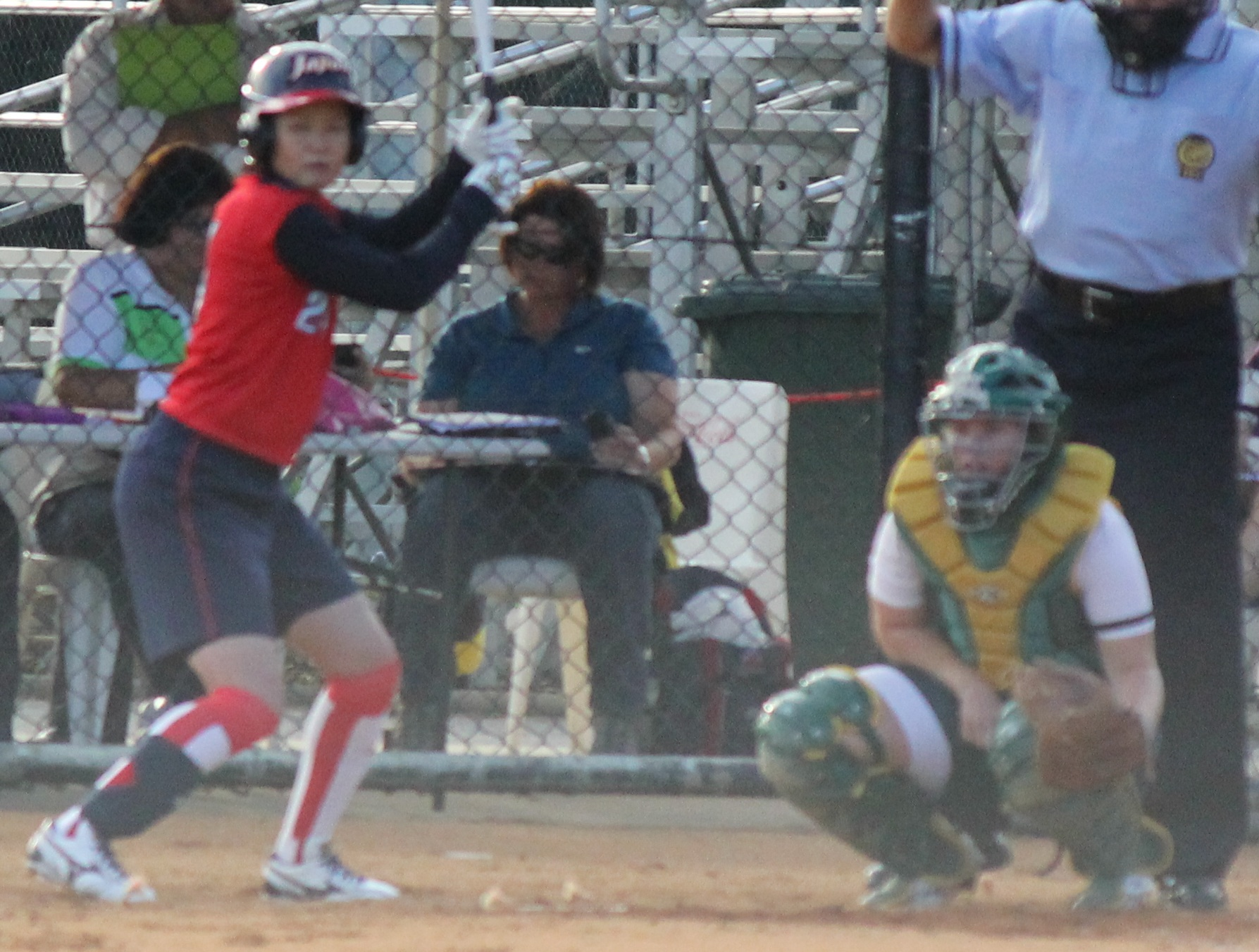 Kym Tollenaere